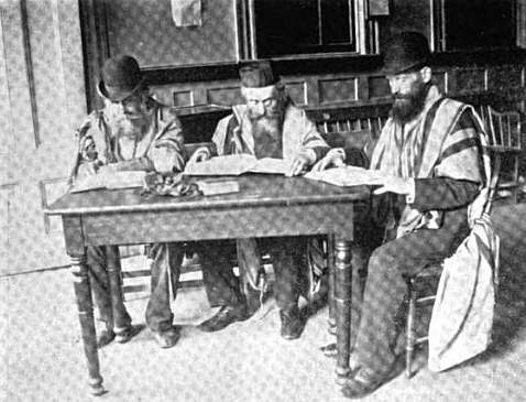 "Russian jews," synagogue, Baldwin Place, Boston